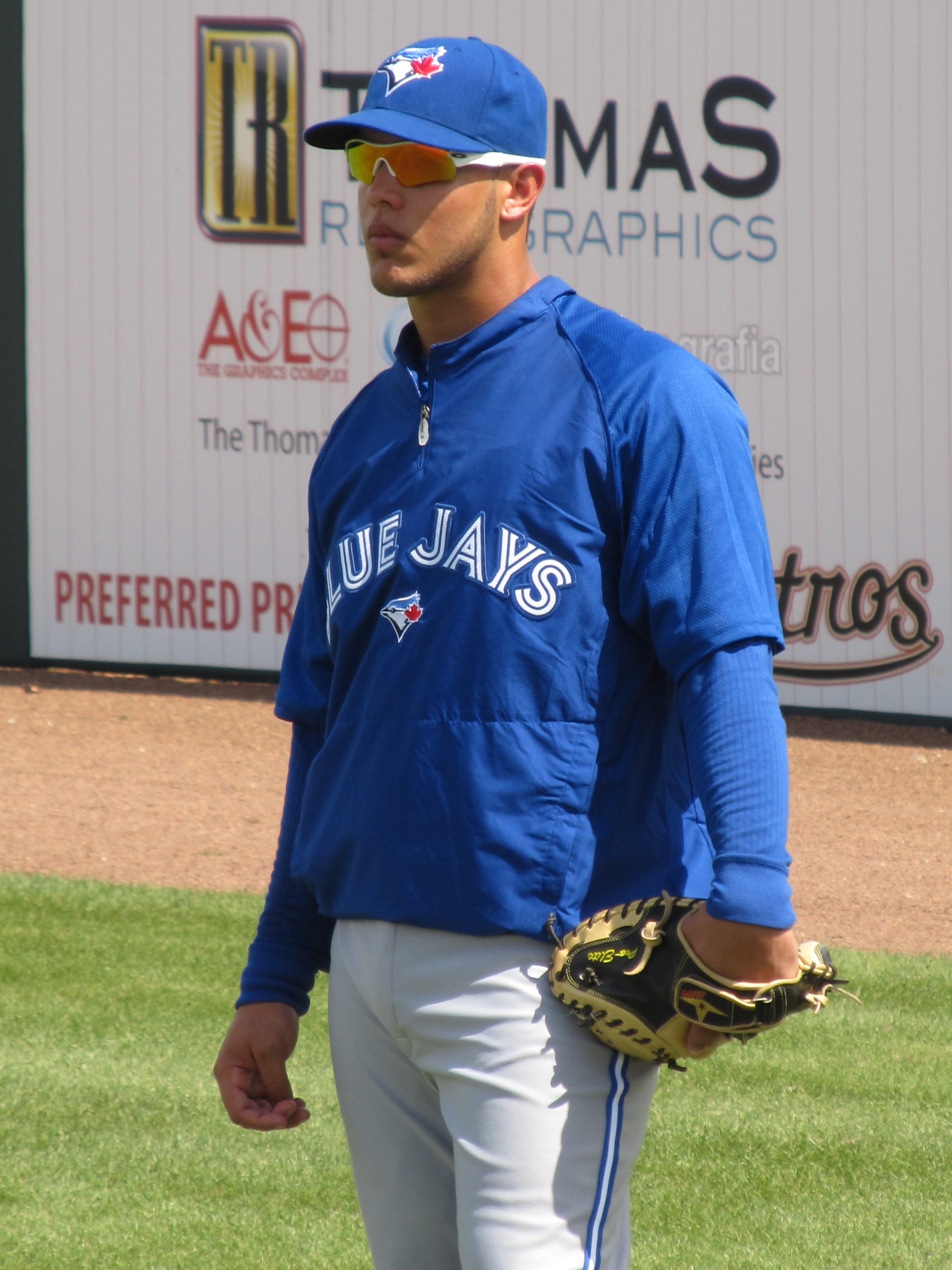 A. J. Jiménez